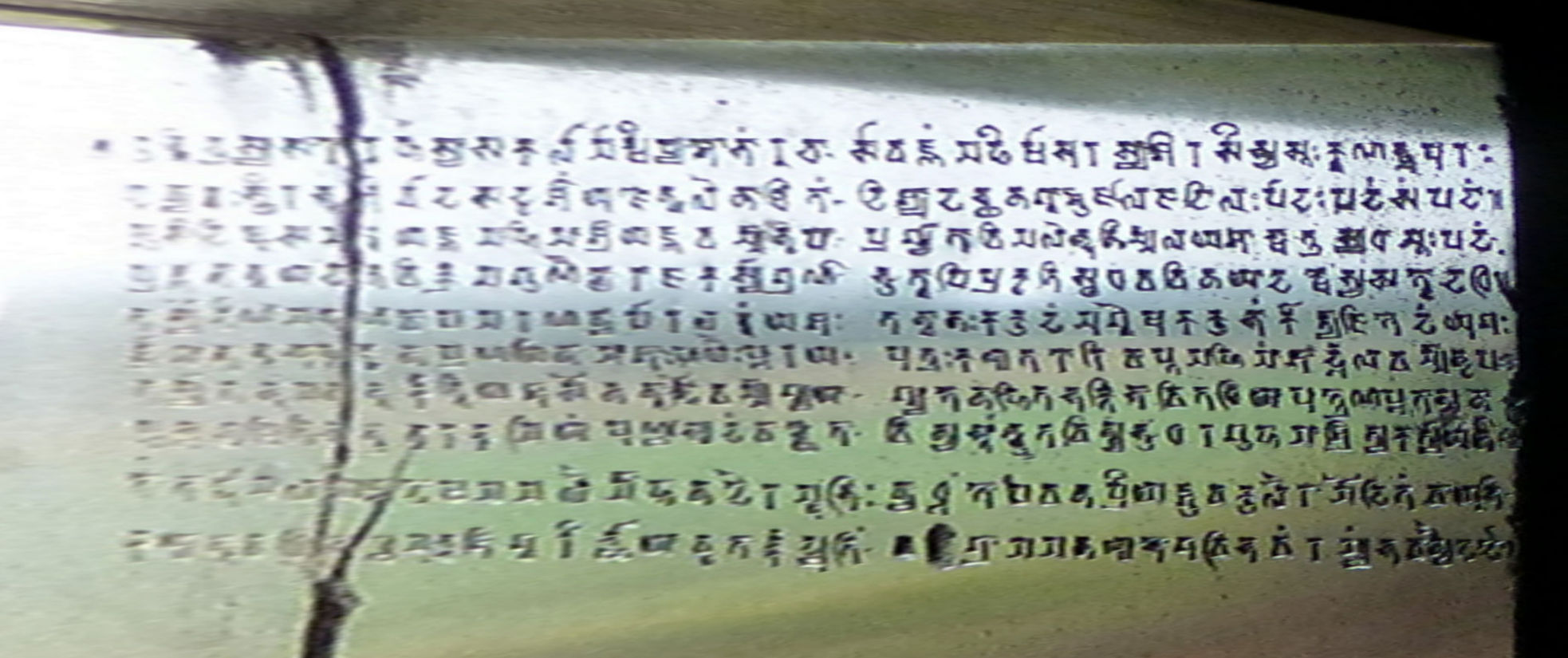 Gopika cave Anantavarman inscription with reflect